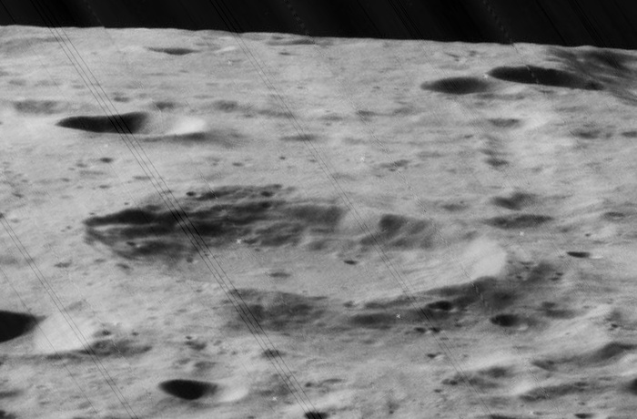 Oblique view of Artem'ev, on the far side of the moon, facing west.